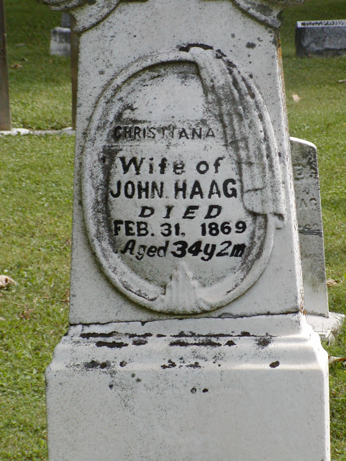 This gravestone in the Old Mission Church Cemetery in Upper Sandusky, Ohio, shows the date of death for Christiana Haag as being Feb. 31, 1869, despite there not being a February 31